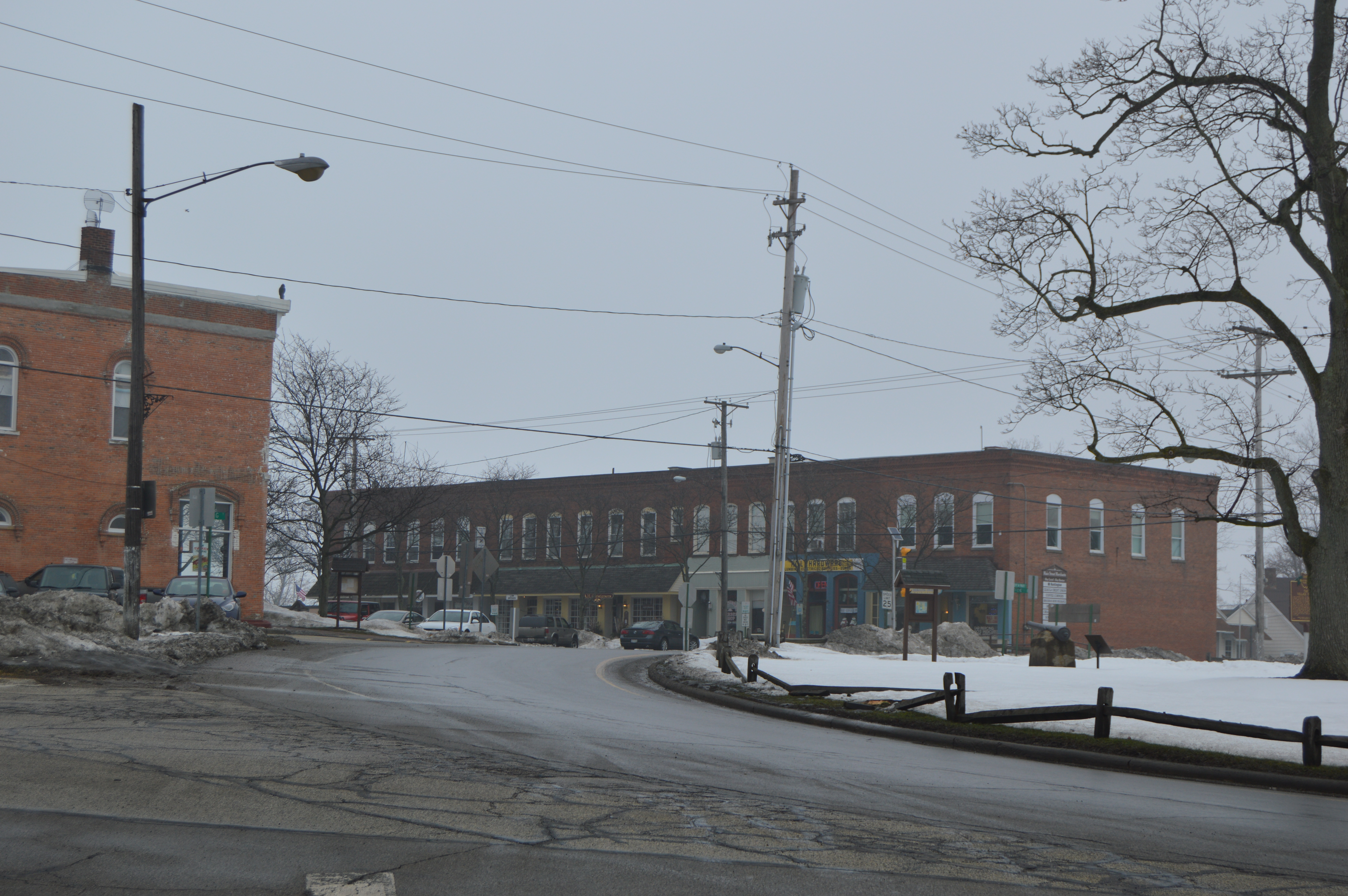 Looking north from the northern end of the village green in Burton, Ohio, United States. This commercial district is part of the Burton Village Historic District, a historic district that is listed on the National Register of Historic Places.